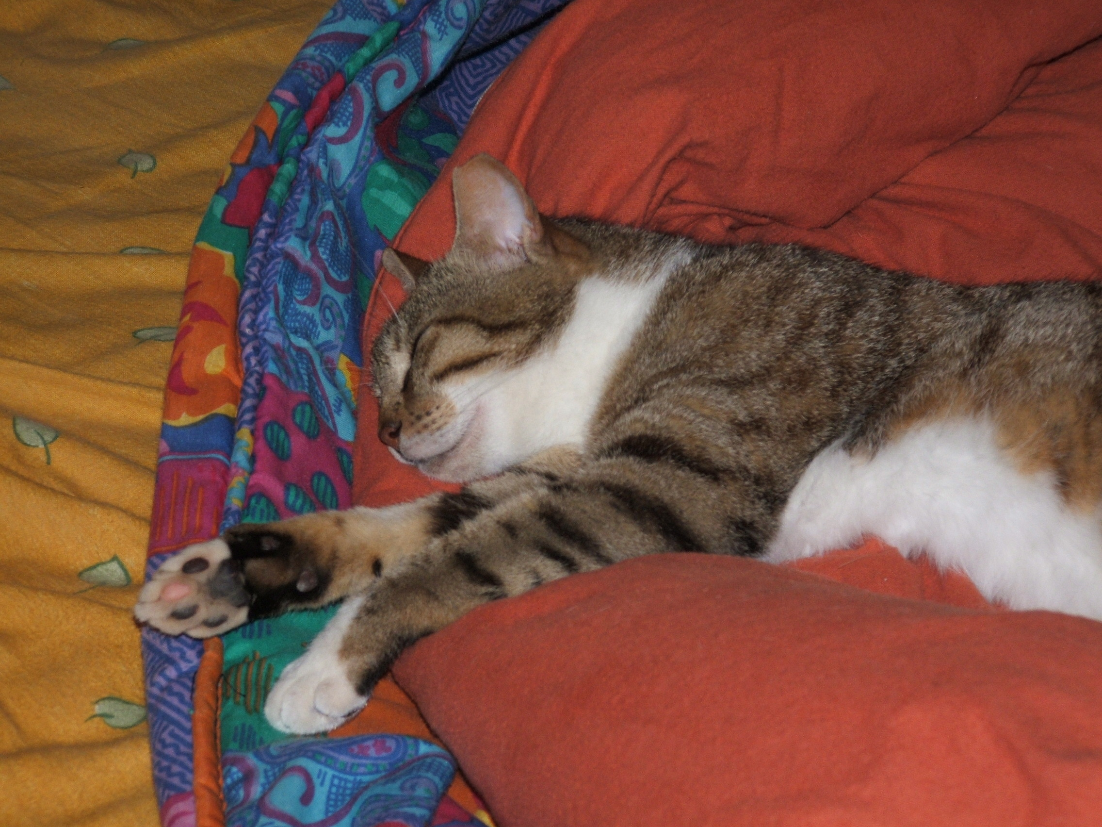 Cat sleeping in bed